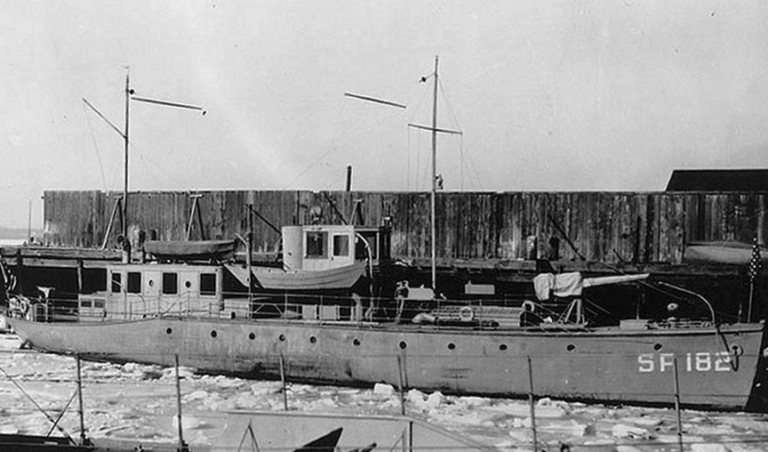 Photo #: NH 100662